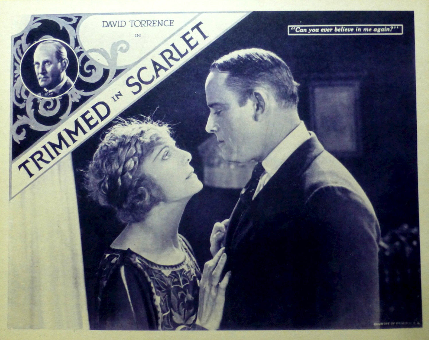 Lobby card for the 1923 film Trimmed in Scarlet with David Torrence.